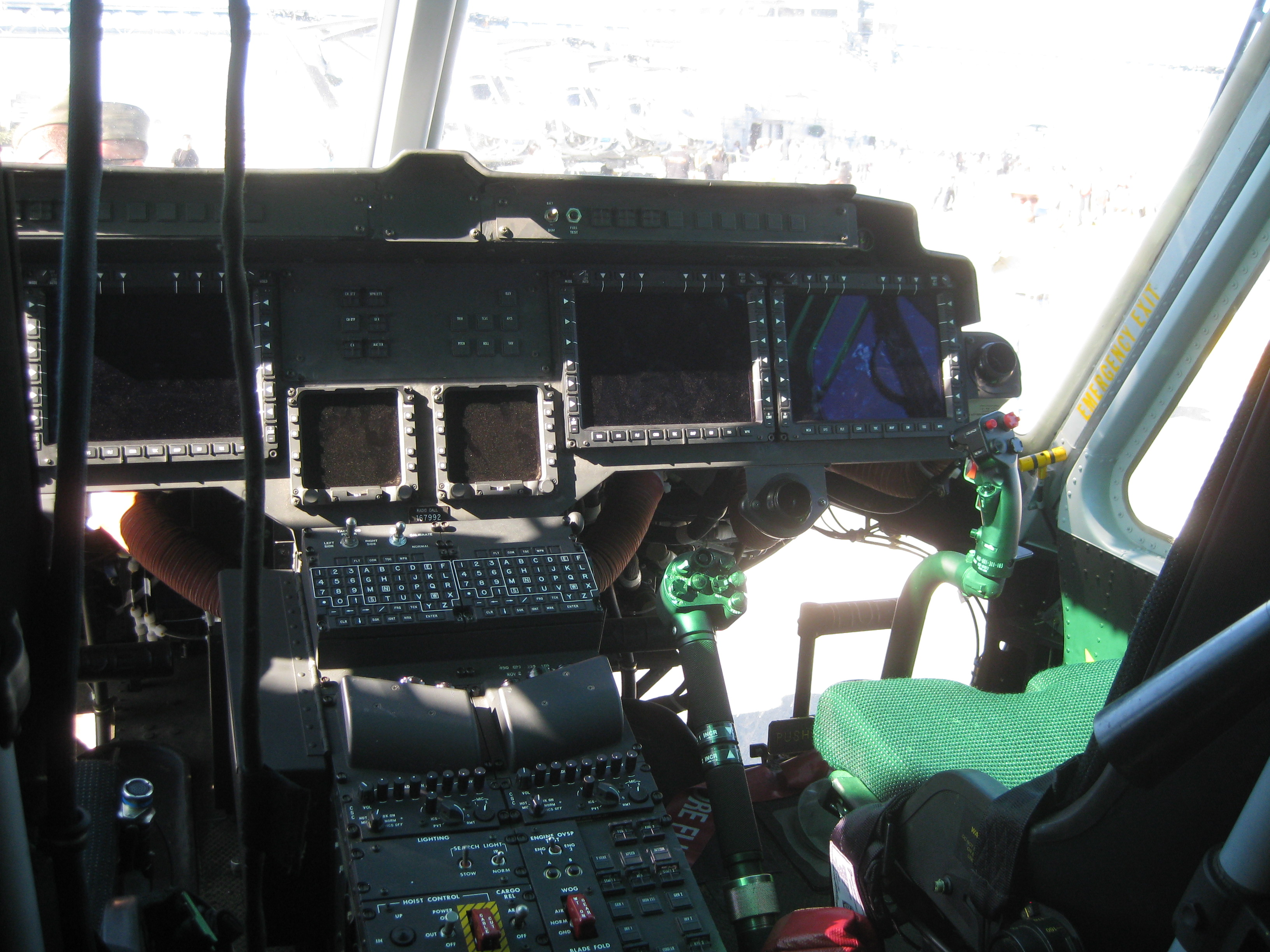 UH-1Y Glass Cockpit